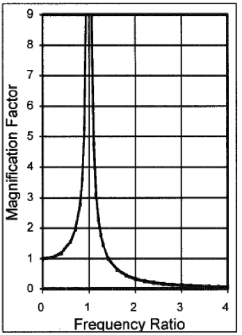 Vibration magnitude factor